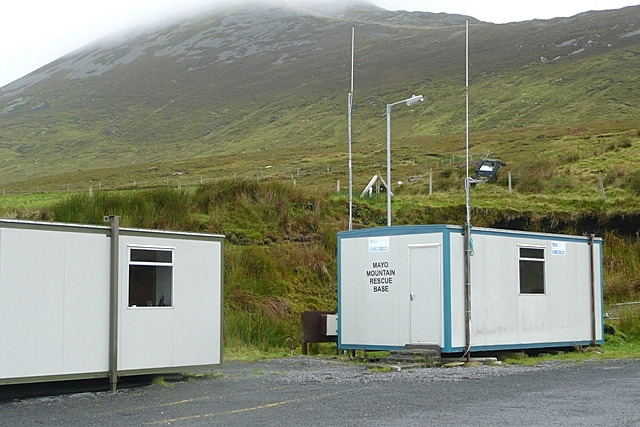 Mayo mountain rescue This base is not permanently staffed, but when required an ascent of Croagh Patrick is quicker for the rescue teams from this side of the mountain. The Pilgrim's Path towards the top can be seen on the skyline.